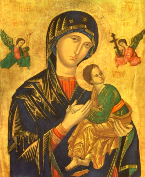 Our Mother of Perpetual Help, a 15th Century Marian Byzantine icon. Has METER THEOU ("Mother of God") monograms.